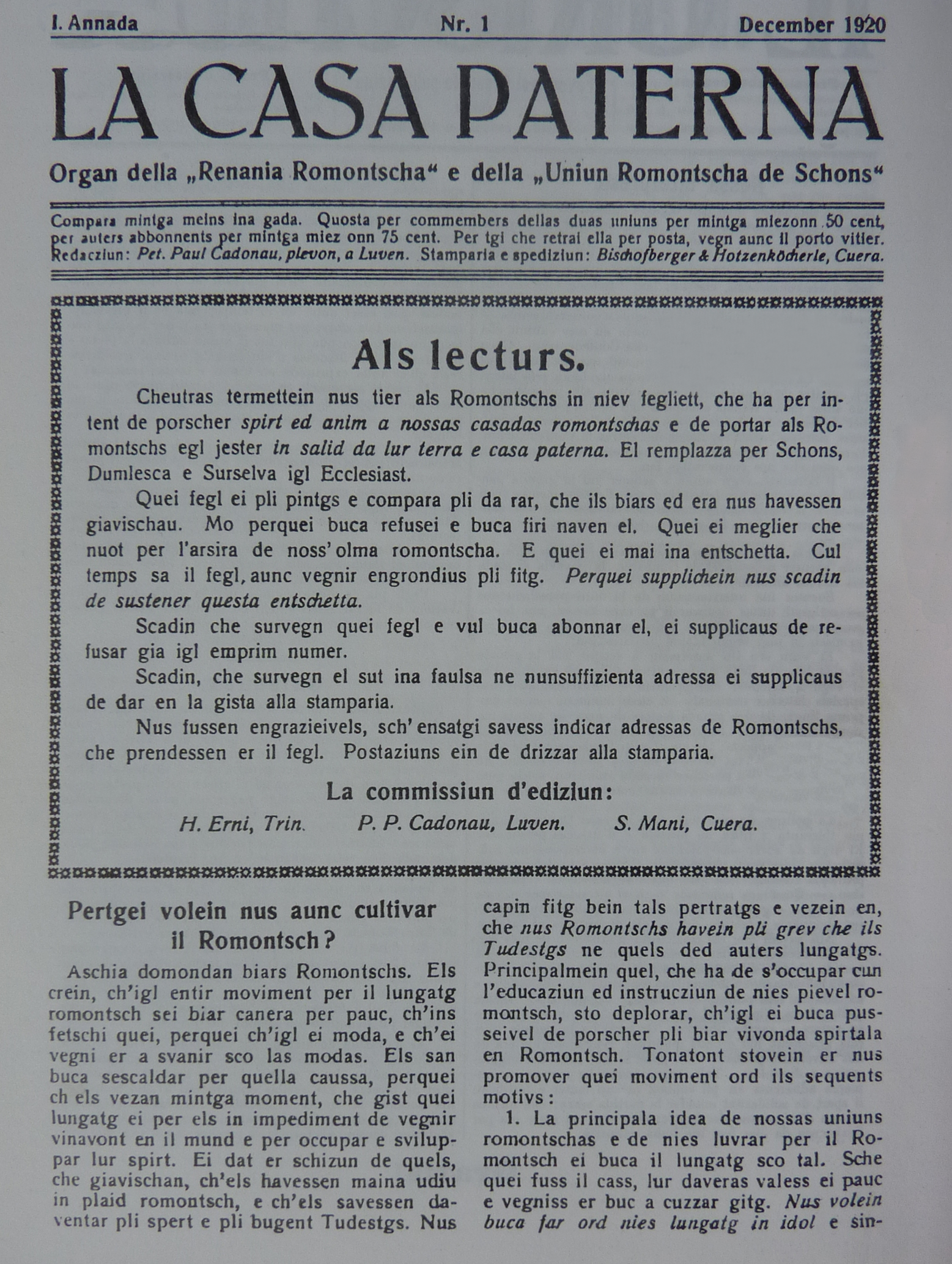 First page of the former Swiss newspaper Casa Paterna